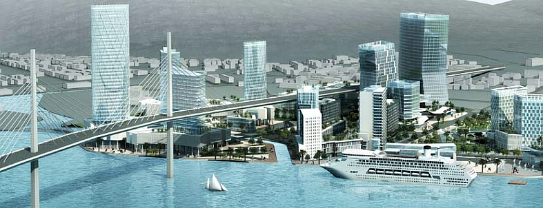 Neotown project Port Louis Mauritius